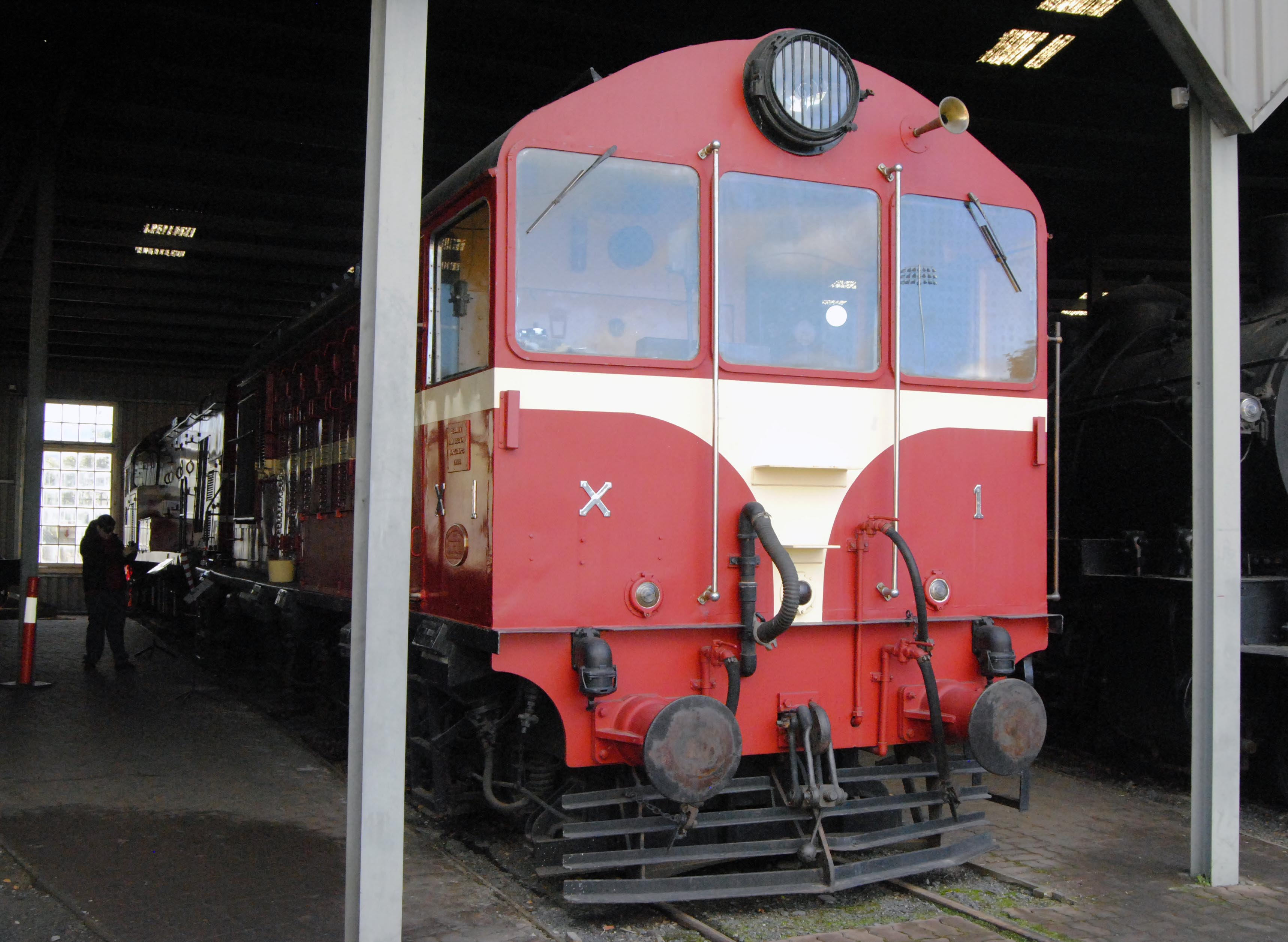 Tasmanian Government Railways X class #1, preserved and operational at the Tasmanian Transport Museum, Glenorchy. Other information Taken with Nikon D3000 and cropped in Adobe PhotoShop CS6